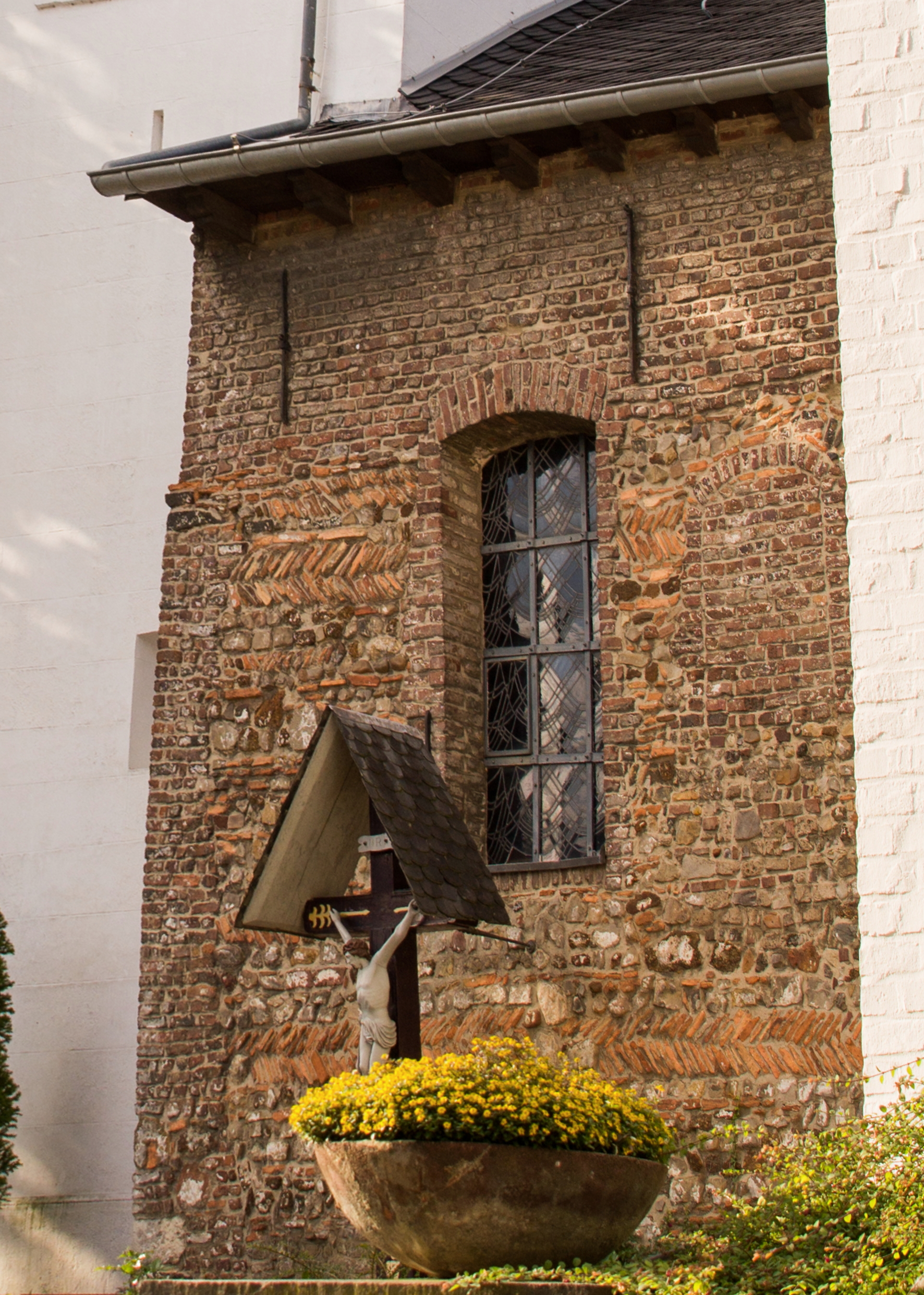 St. Martin (Orsbeck), lateral wall of about 1000, erected with opus spicatum of re-used ancient Roman brick Wikidata has entry Q19798310 with data related to this item.